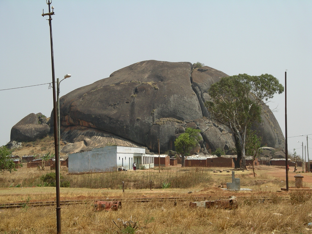 The giant monolith at Lepi, Huambo Angola